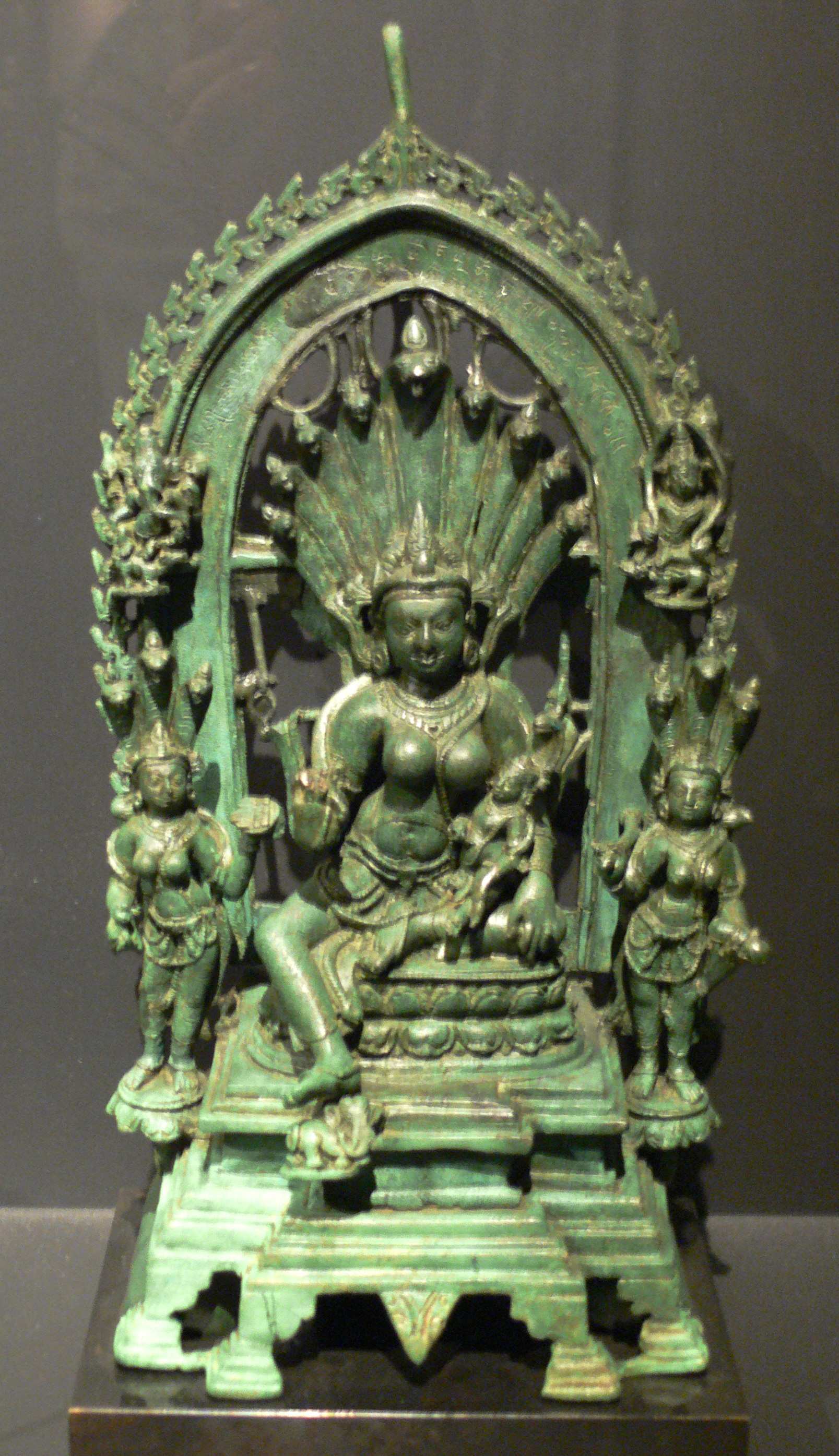 Manasa Devi (Hindu snake goddess) with her son Astika on her lap. Next to her on the top arch: the elephant-headed god Ganesha, and the god of death Yama. Bronze casting, Bihar, eastern India, Pala style, 10th Century. Linden Museum, Stuttgart